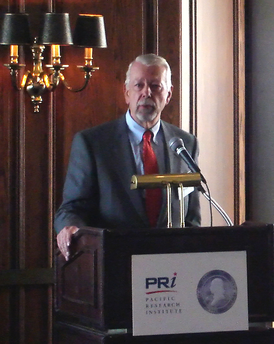 Chief Judge of the United States District Court for the Northern District of California, Vaughn R. Walker, in 2008